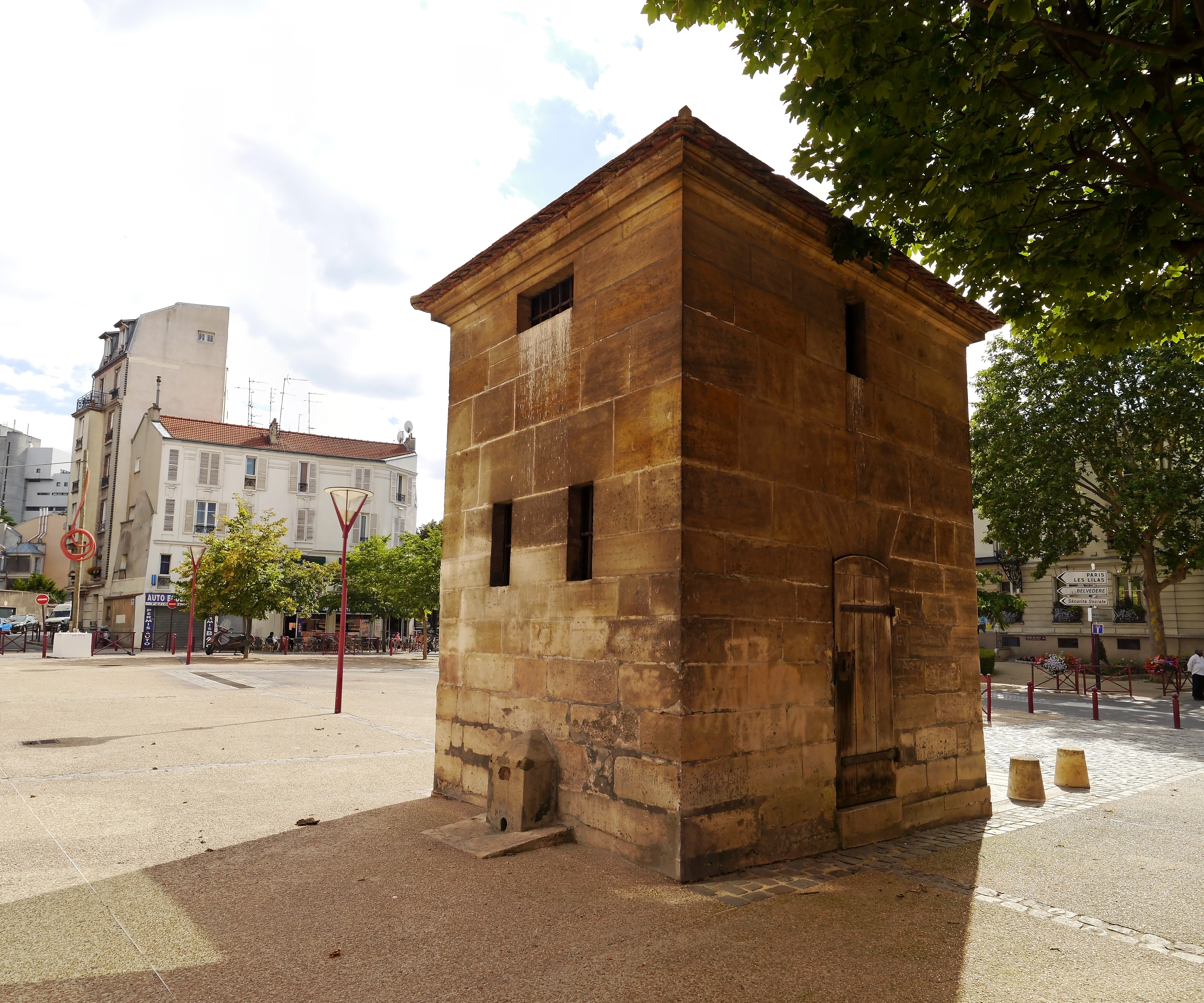 Le Pré-Saint-Gervais, Seine-Saint-Denis, France. Fontaine du Pré-Saint-Gervais.